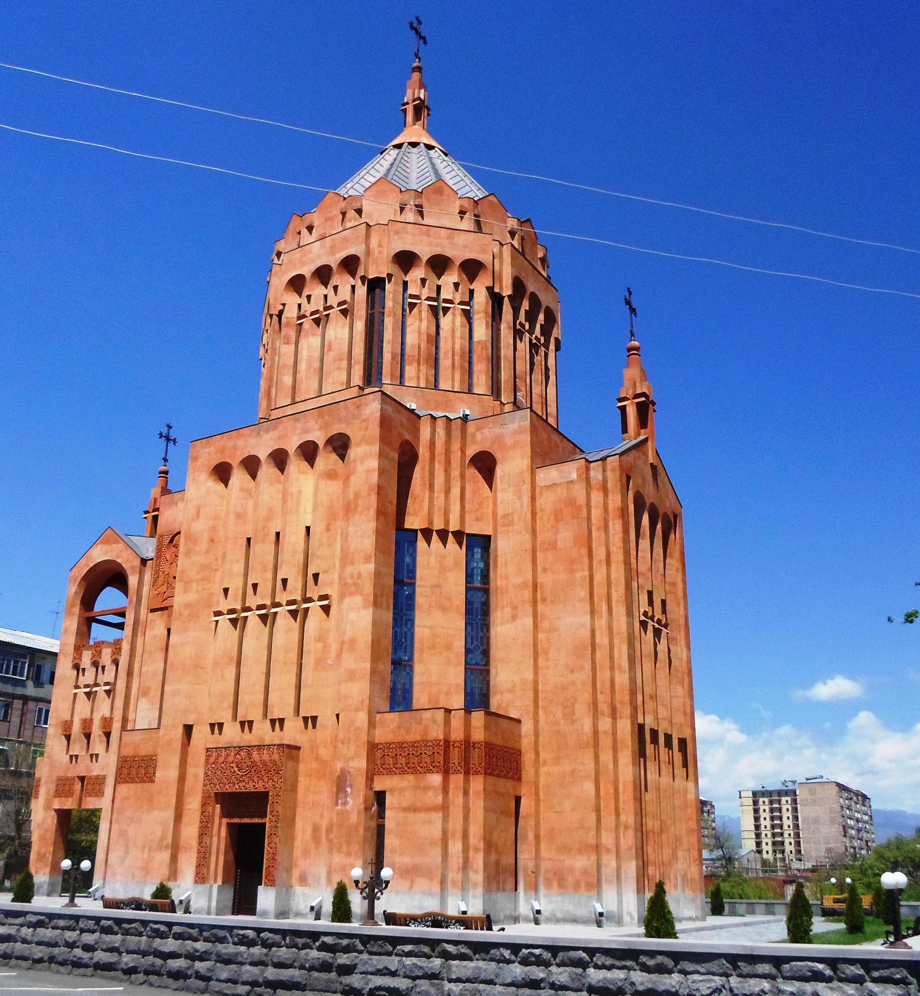 New church in Nor Hachen